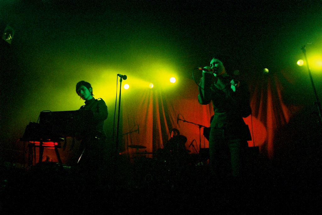 Ladytron performing in London.